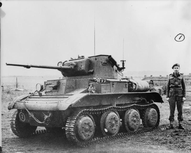 Tanks and Afvs of the British Army 1939-45 Light tank Mk VII Tetrarch Mk I with Little John adaptor